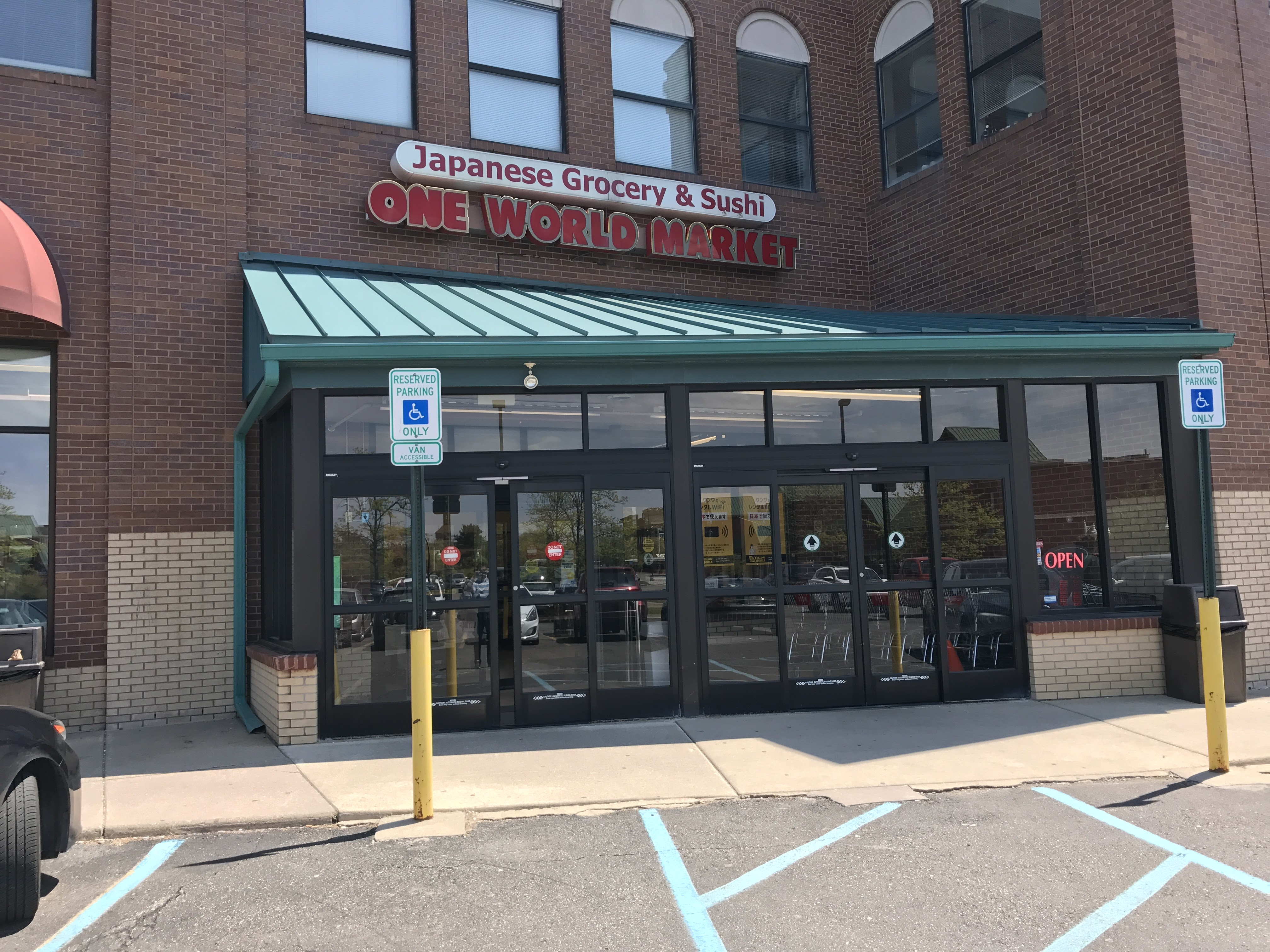 The main entrance of One World Market, Novi. One World Market is a Japanese grocery store in Michigan.